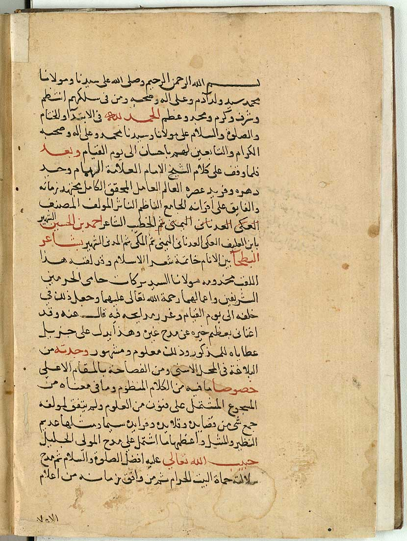 Poetry collection by Šihāb al-Dīn Ahmad ibn al-Husayn Ibn al-'Ulayf al-Makkī (d. 926 H [1520]). Acquired in Cairo 1763 (d. 1763) by the Danish philologist Frederik Christian von Haven, who was a participant in Carsten Niebuhr's expedition to the Middle East 1761-1767. Cod.Arab. 244